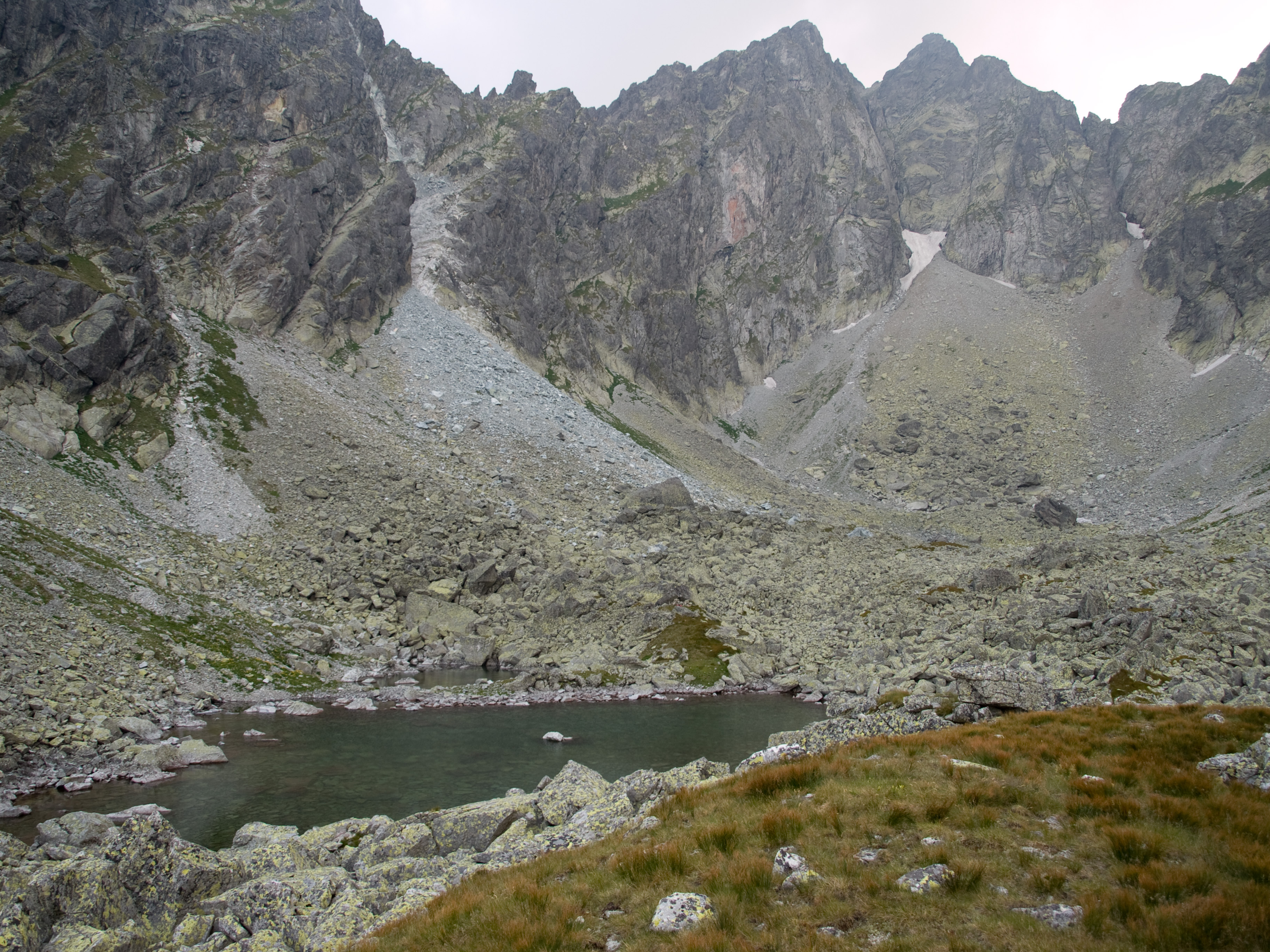 Szontaghovo pleso in Slavkovská dolina, above it Rohatá veža and Bradavica